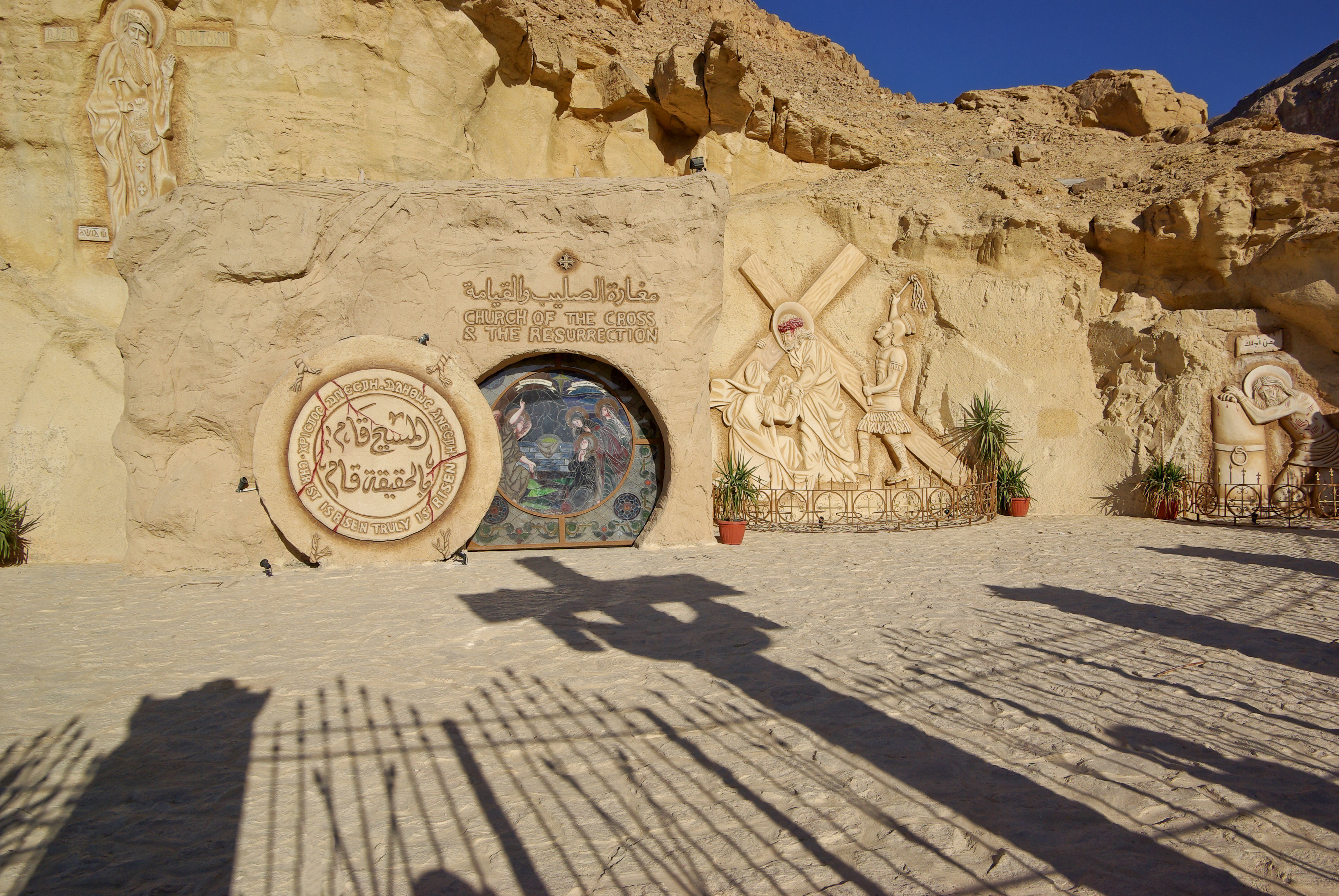 Monastery of Saint Anthony, Egypt, Church of the cross and resurrection